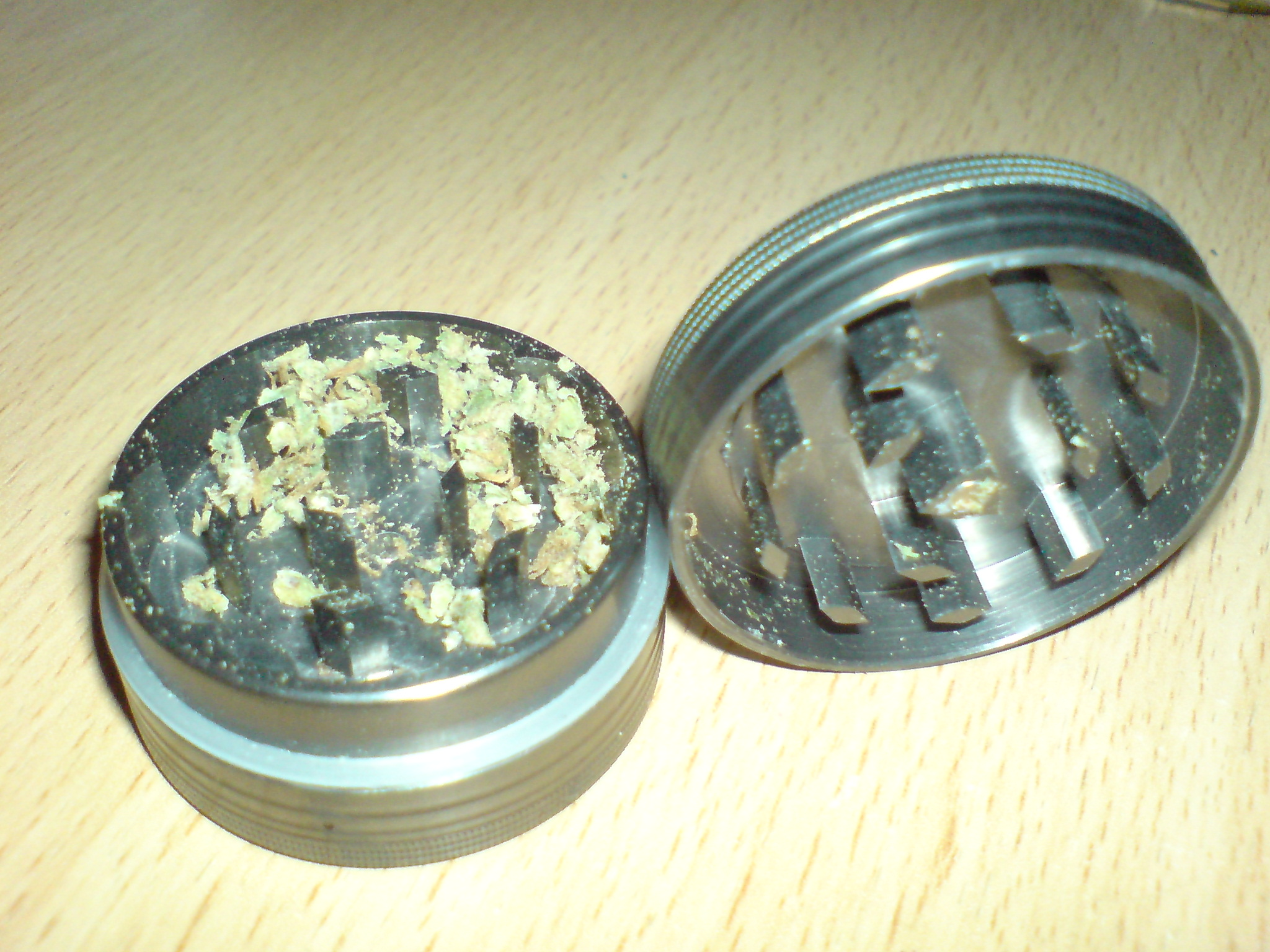 A metal herb grinder with a small amount of cannabis inside